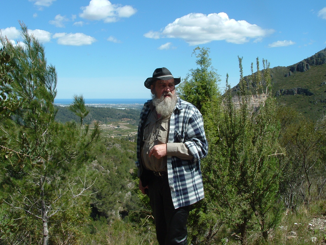 Marian Hess 12 kwiecien 2009